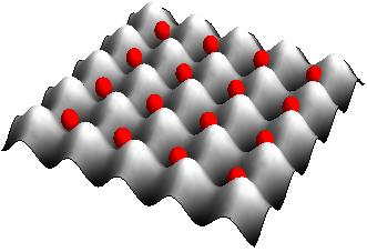 Optical lattice with atoms in Mott-insulator phase